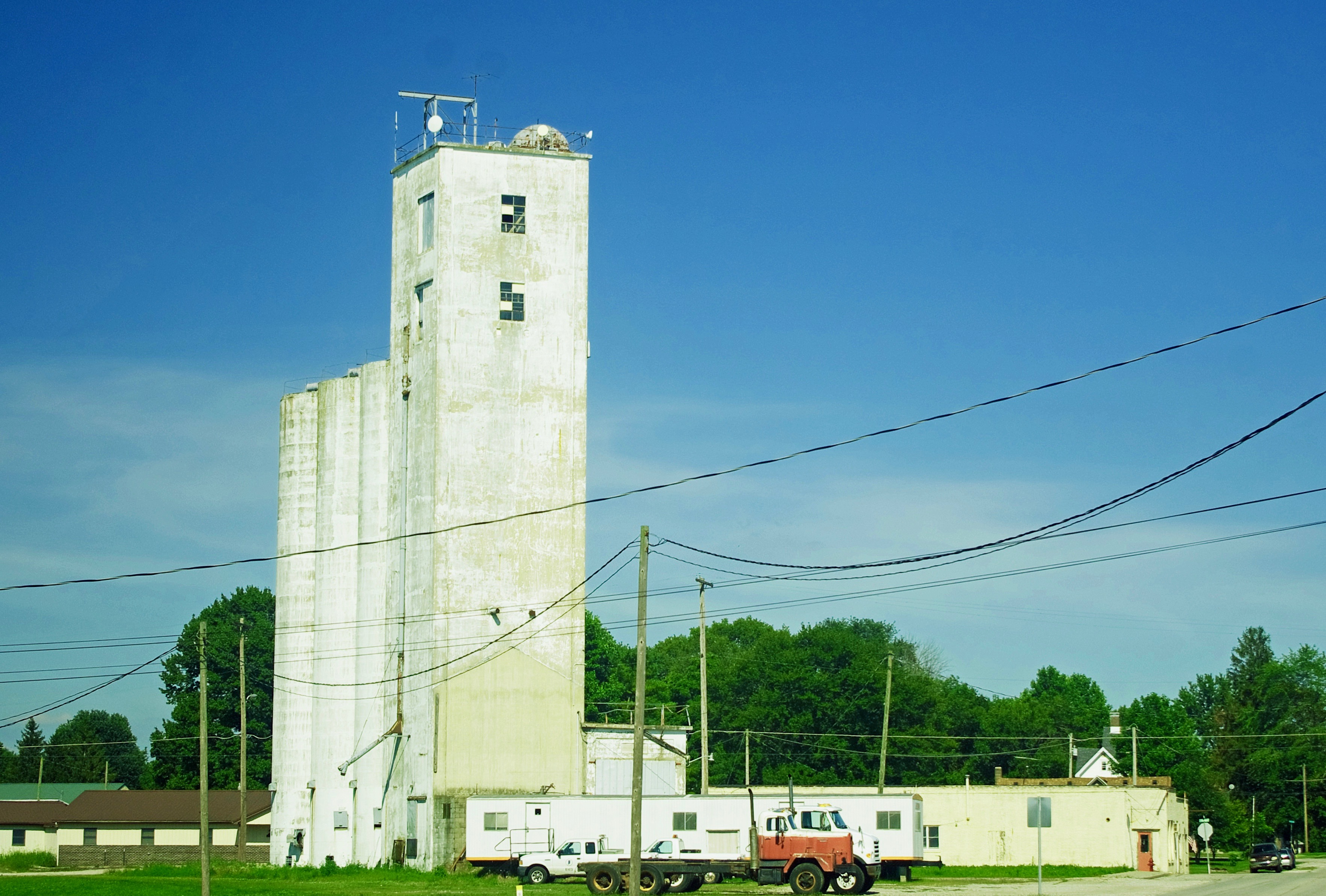 Grain elevator in New Market, Indiana, United States.